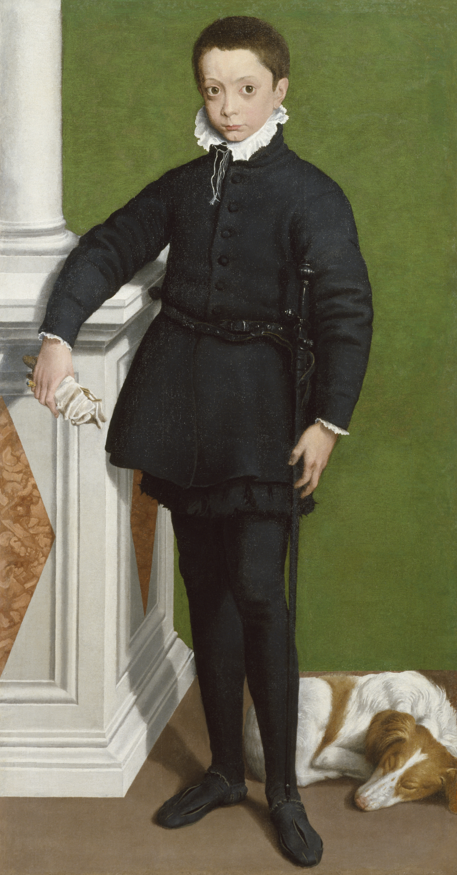 An inscription on the back of this striking portrait identifies the boy as the nine-year-old Massimiliano Stampa, third marquis of the small northern Italian city of Soncino. The painting commemorates his inheritance of the title in 1557, when his father died. Black clothing was fashionable in Italian courts during the 16th century. The full-length figure with the column in the background and a faithful dog is typical of aristocratic portraiture and treats the new marquis as an adult. His gloves and sword are expressive of his social status.